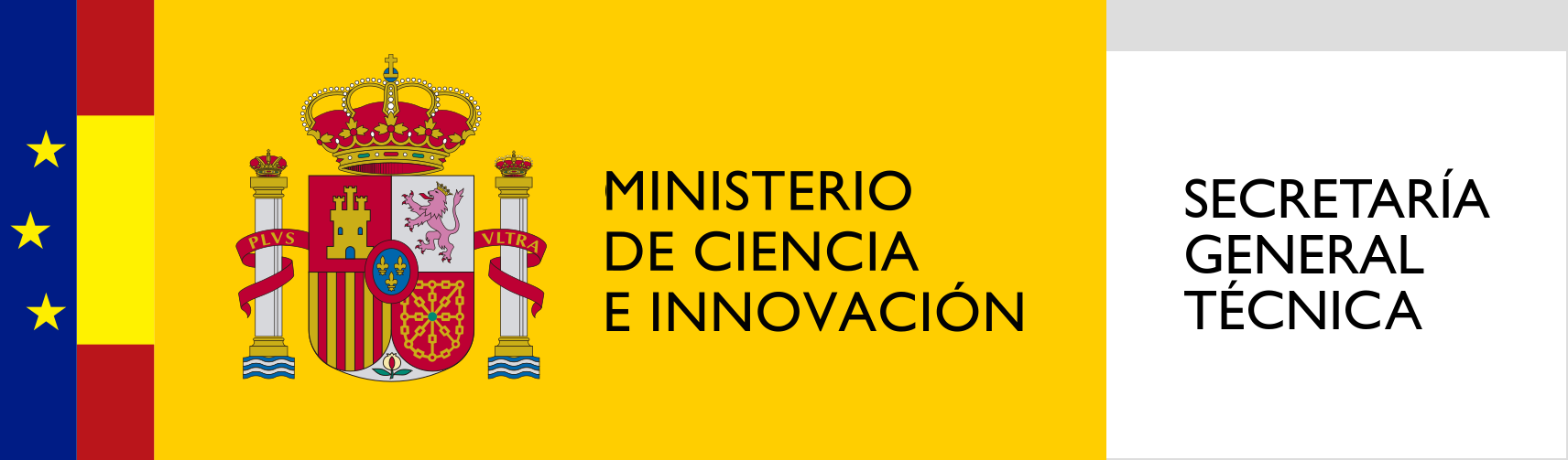 Logo of the General Technical Secretariat of the Ministry of Science, Innovation and Universities.